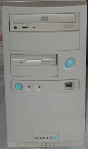 Iyonix (front).At the top is the CDRW dirve with floppy disc drive below. To its right is the On switch. Below, on the left, is the Reset switch next to the power and HD activity LEDs and 2 x USB ports. At the bottom is the air inlet and the speaker is inside the case.